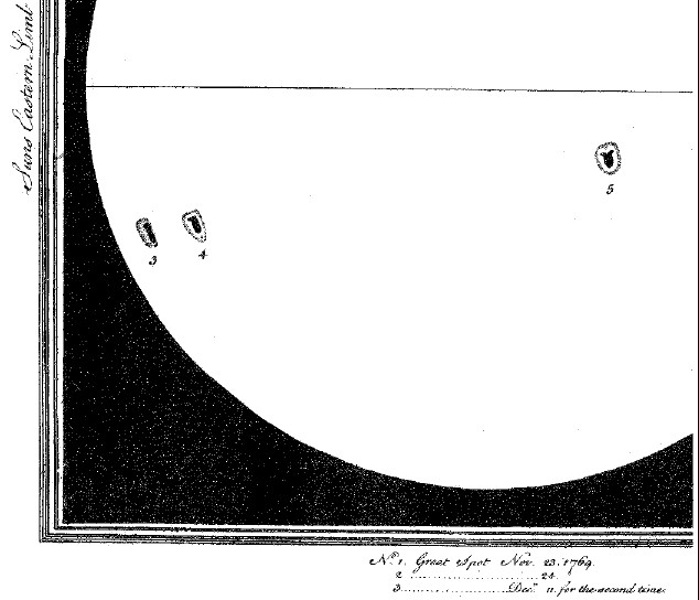 The original drawing from the articleof A. Wilson which illustrate the Wilson effect.